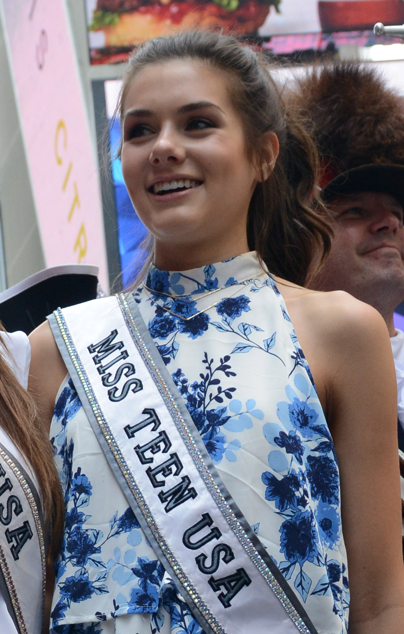 Miss Teen USA K. Lee Graham celebrates the US Army's 240th birthday in Times Square in 2015. The Army celebrates its 240th birthday with events in Times Square, New York, that included a performance by the Old Guard Fife and Drum Corps and an appearance by Miss USA and Miss Teen USA. (Photo Credit: Lisa Ferdinando)